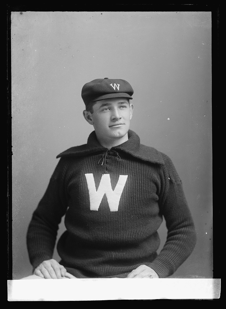 Otis Stocksdale in a Washington Senators jersey. Photographed by C. M. Bell Studio